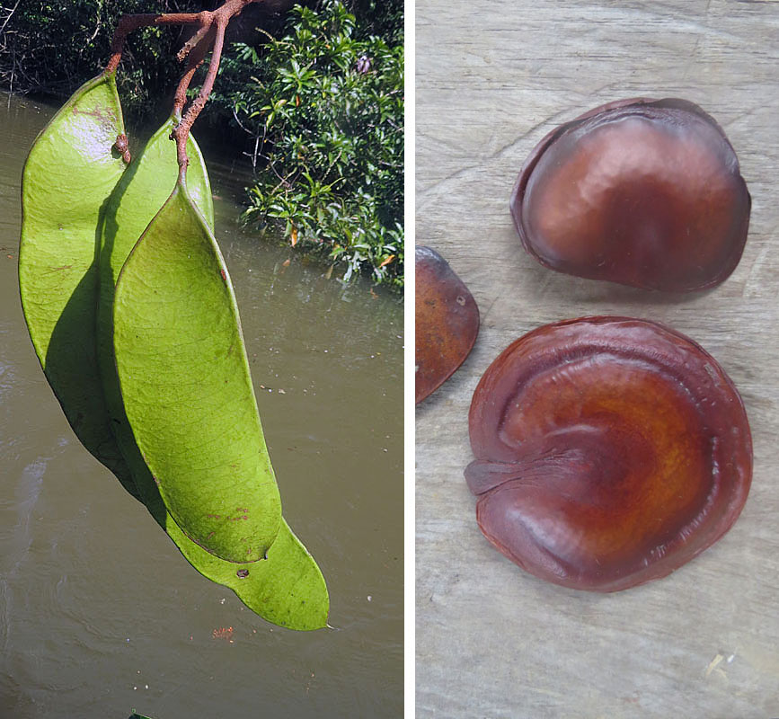 These Huacapurana seeds float on the rivers of northern South America. They are collected by the natives and ground into a flour as sustenance. In context at